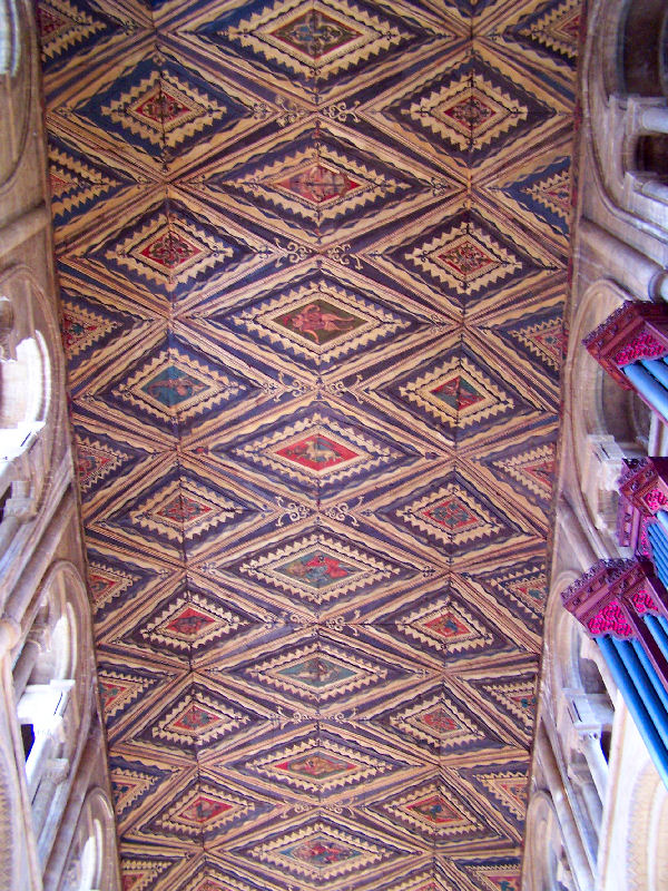 Painted ceiling Peterborough Cathedral taken by kev747